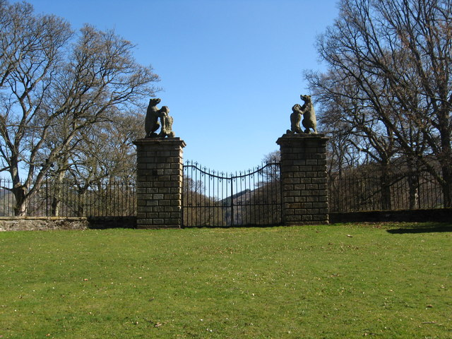 The Steekit Yetts of Traquair, Scottish Borders, Great Britain. The stuck gates of Traquair were slammed shut in 1746 after the Jacobite rebellion of 1745 was crushed and a disillusioned Prince Charles Stewart escaped to Italy and a lifetime's exile. The Stewarts of Traquair made the decision the gates would only be reopened when a Stewart returned to the throne of Scotland. Traquair, the oldest inhabited house in Scotland, has been in the same family, now descendants, the Maxwell-Stuarts, since the 15th century.